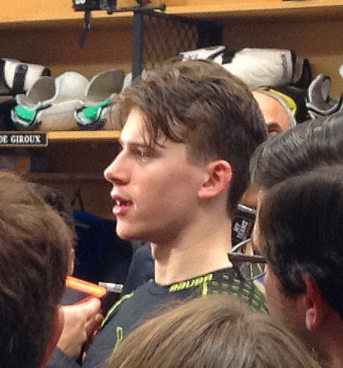 Philadelphia Flyers' rookie goaltender Carter Hart meeting the media at the Wells Fargo Center in Philadelphia, PA after winning his first NHL start, 3-2, over the Detroit Red Wings, December 18, 2018.